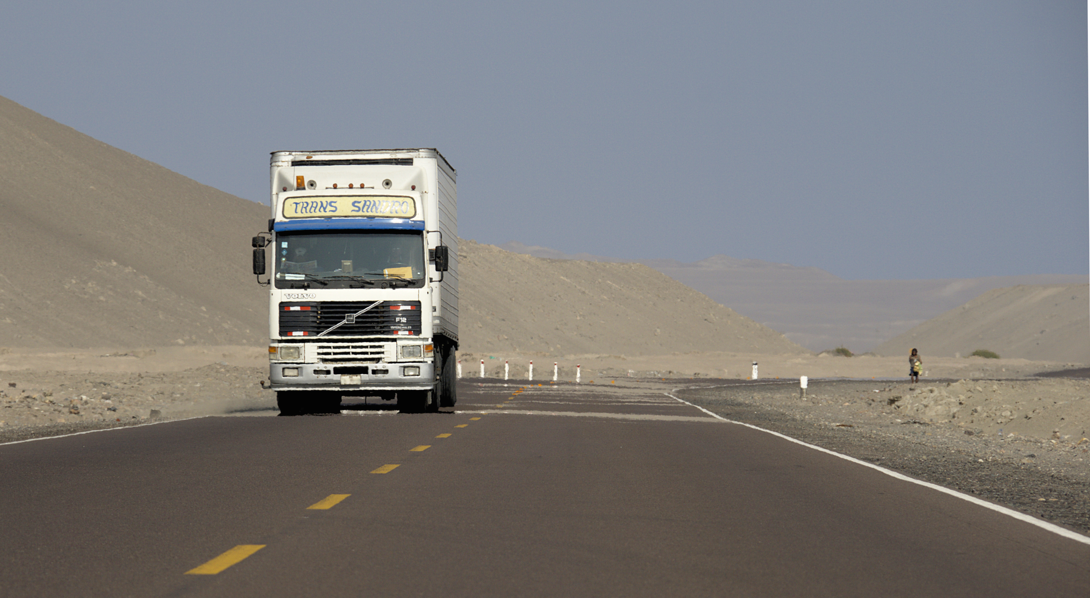 A Volvo F12 on the Pan-American Highway near Puerto De Lomas, Peru